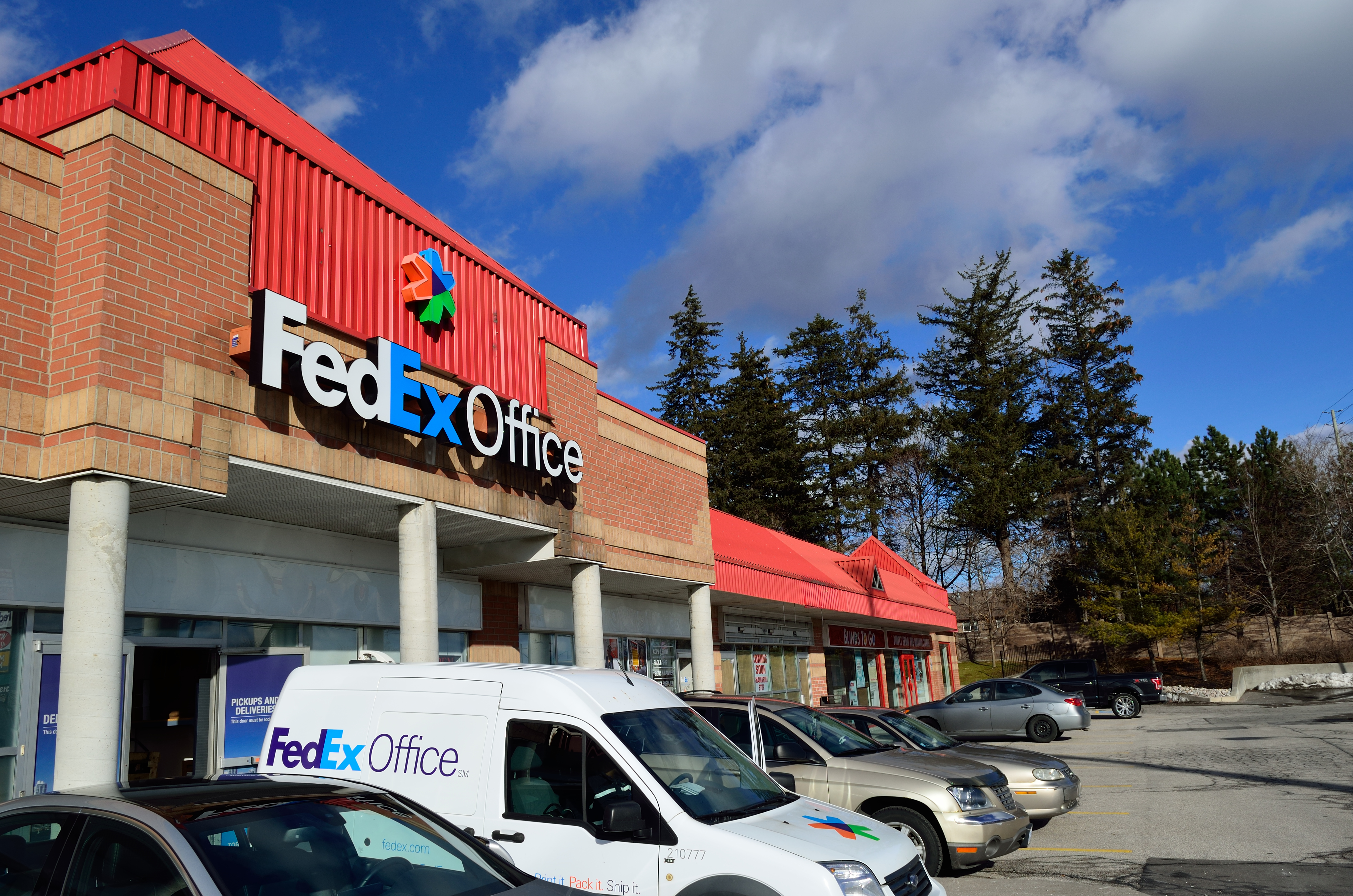 FedEx Office Print & Ship Centre - 3150 Hwy 7 East, Markham, ON L3R 5A1 Canada